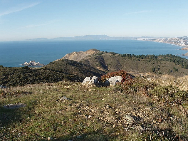 photo looking north from San Pedro Mountain, San Mateo County CA